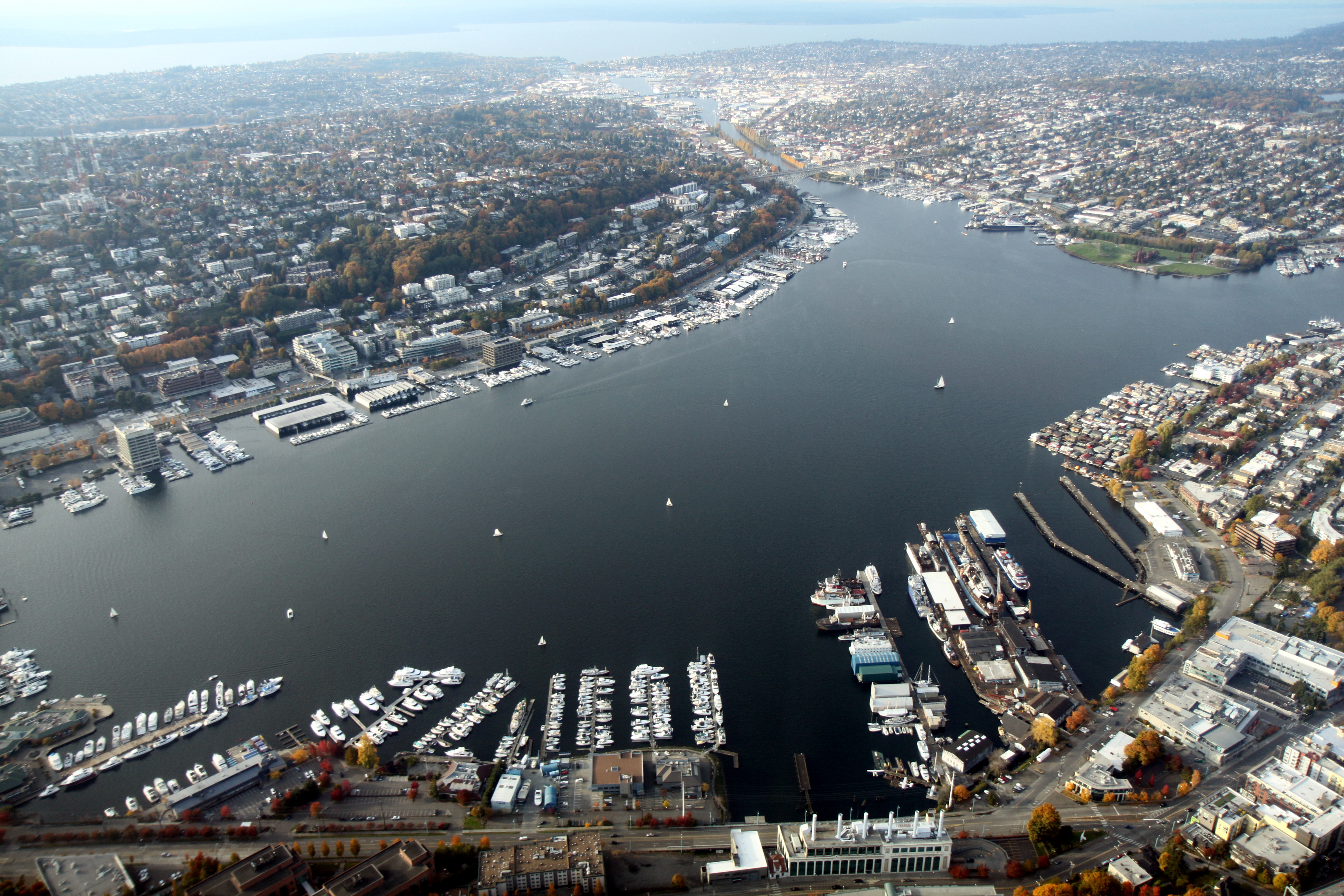 Lake Union in Seattle, looking west towards the Fremont Cut and Puget Sound. Shot from approx 1,700' MSL.